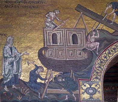 Construction of Noah's Ark. Mosaic in Monreale cathedral, Sicilia.